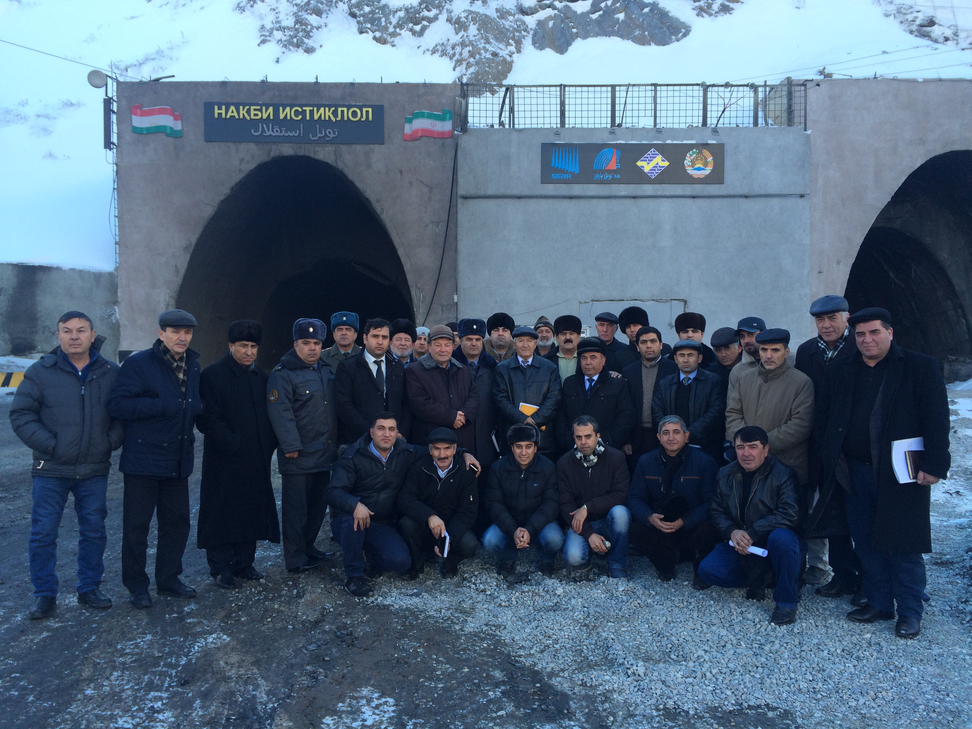 DTA